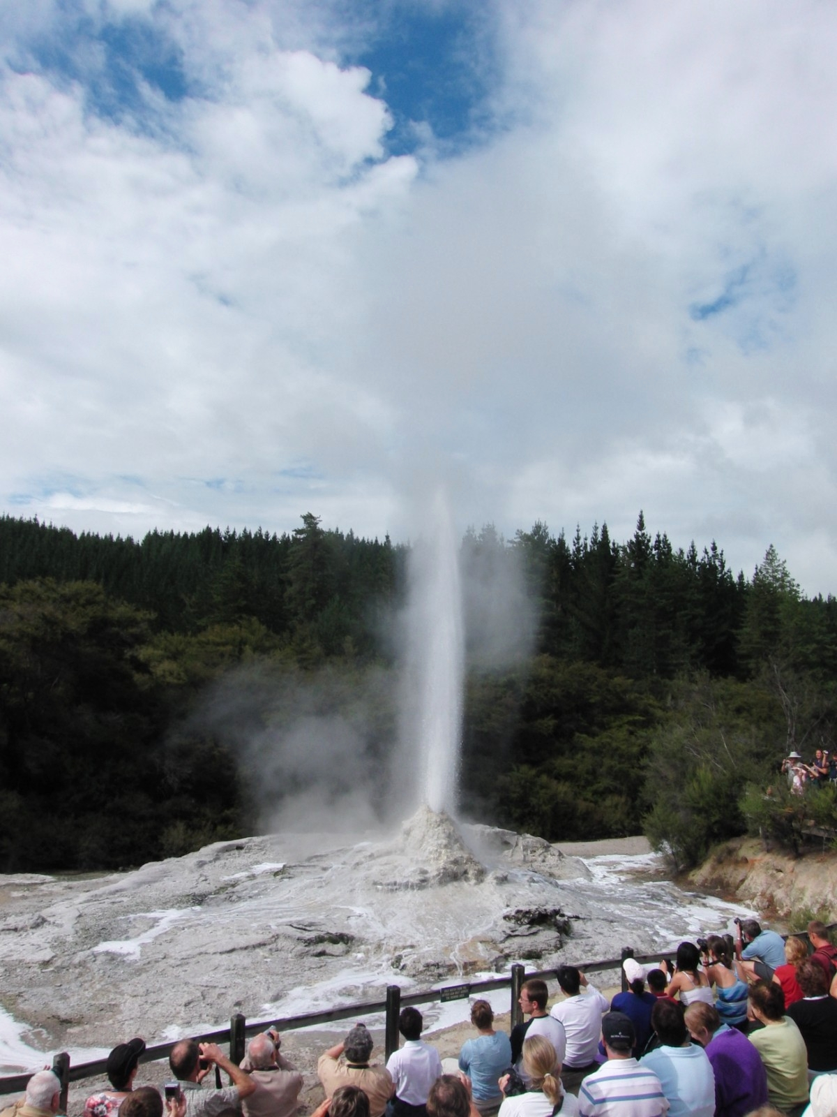 Lady Knox Geyser in Waiotapu.- Rotorua, New Zealand.